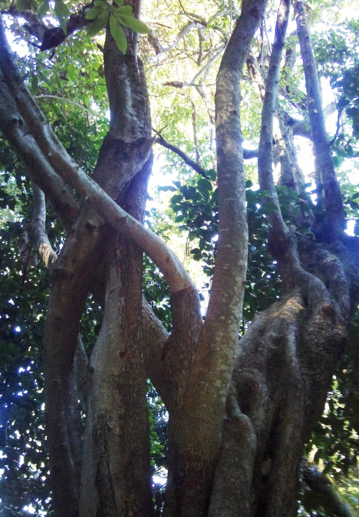 Twisted trunk of a large Canthium inerme tree. Cape Town.